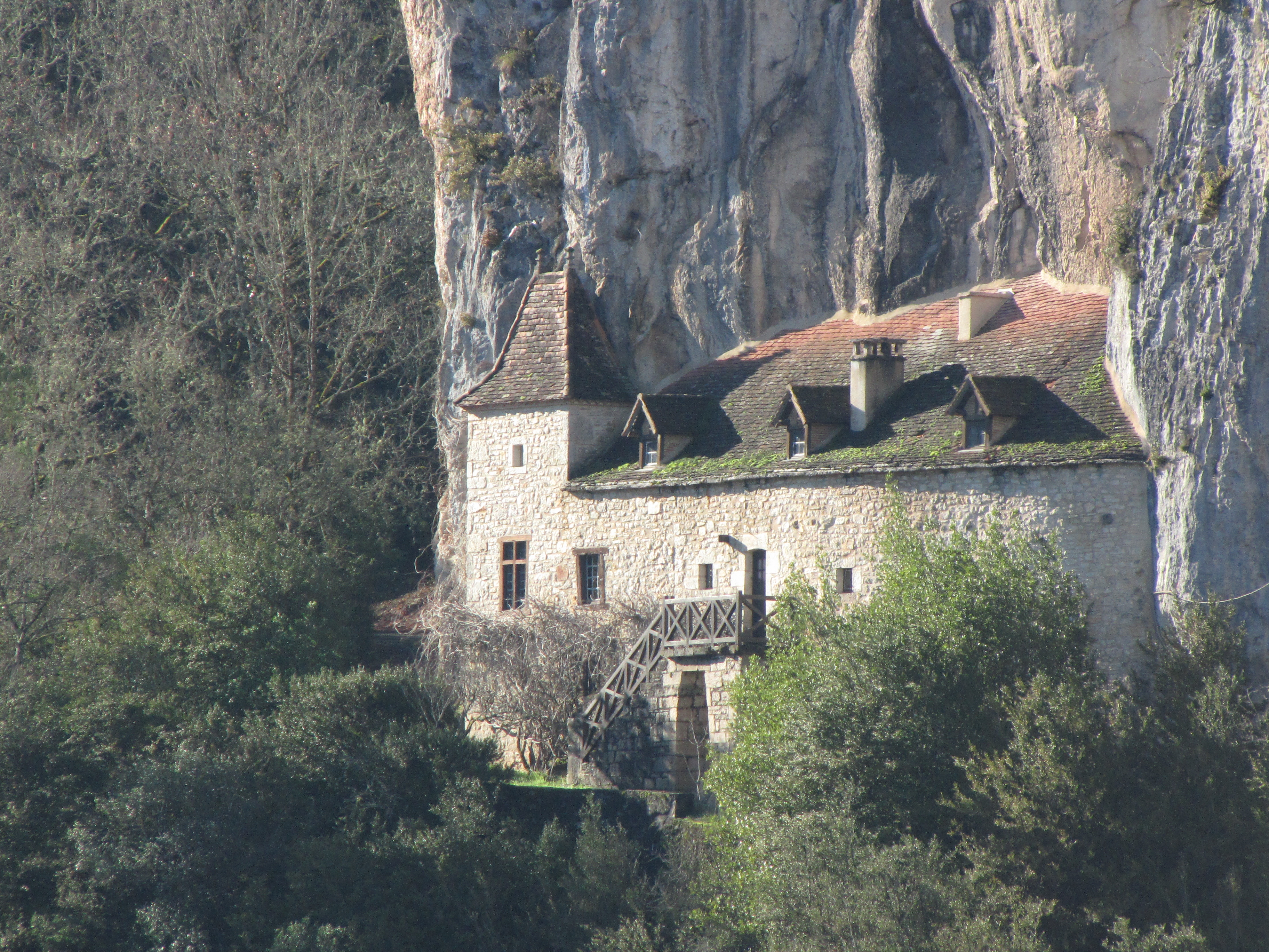 Troglodyte house of Saint-Sulpice, Lot, France.